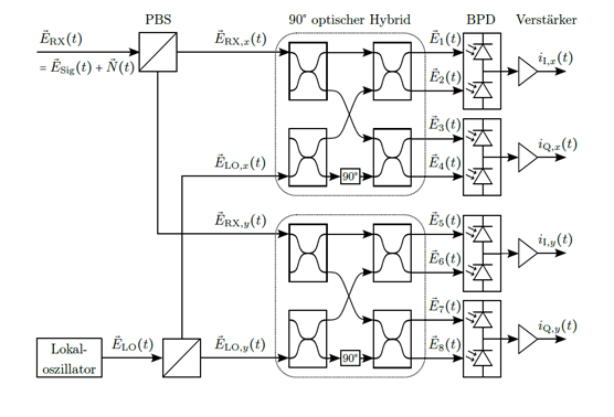 optical receiver